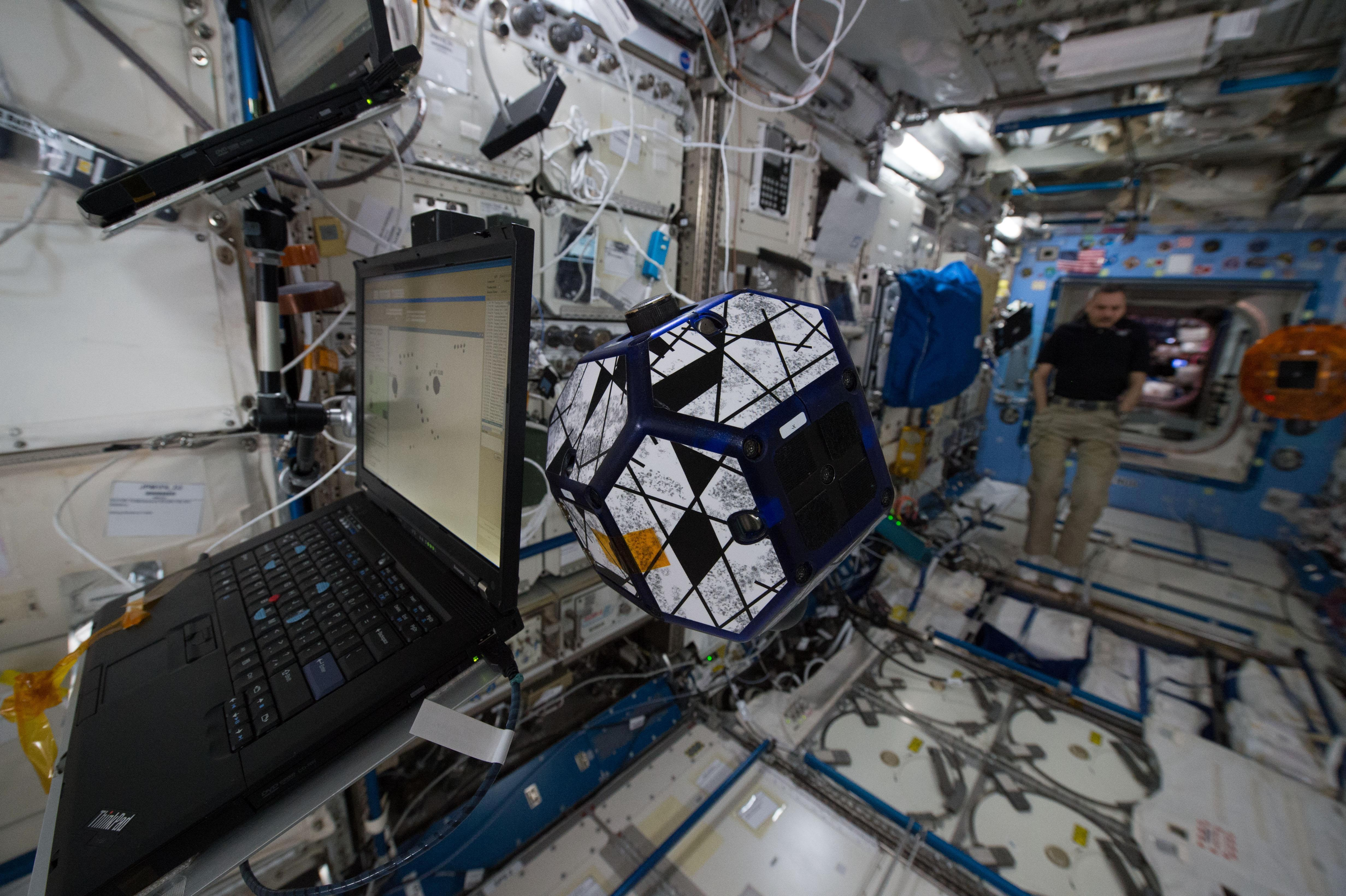 The Finals of the Zero Robotics competition aboard the ISS Photographic documentation taken during the execution of the Synchronized Position Hold, Engage, Reorient, Experimental Satellites (SPHERES) Zero Robotics Competition taken in the Japanese Experiment Module (JEM).